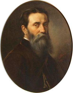 Self-portrait